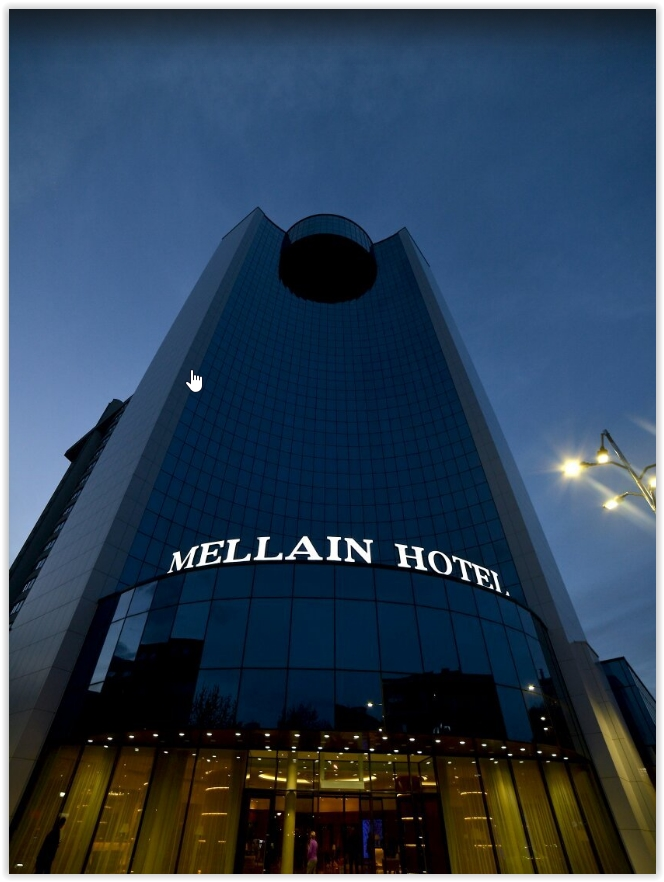 Mellain Center and Hotel in Tuzla, Bosnia and Herzegovina